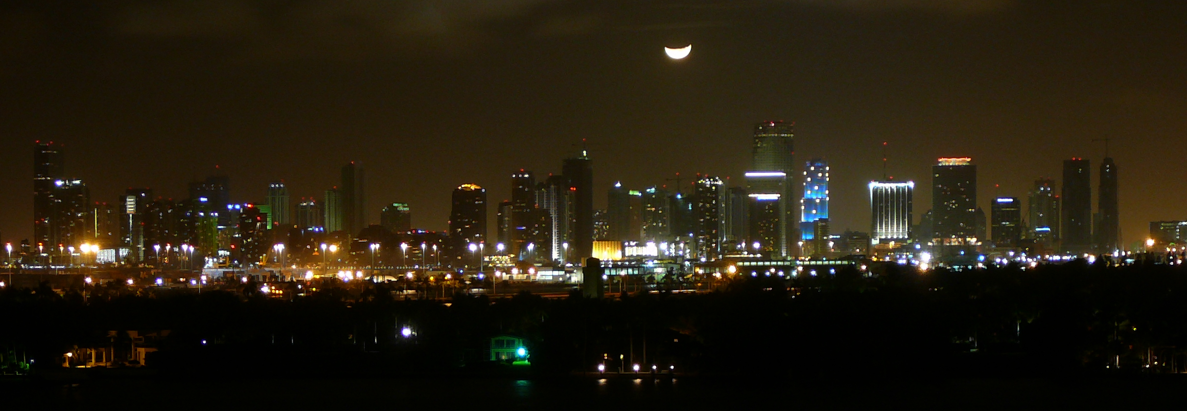 Moon over Miami